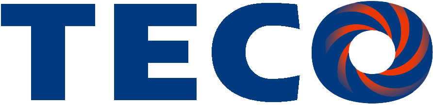 Logo of TECO Electric and Machinery since 2002.